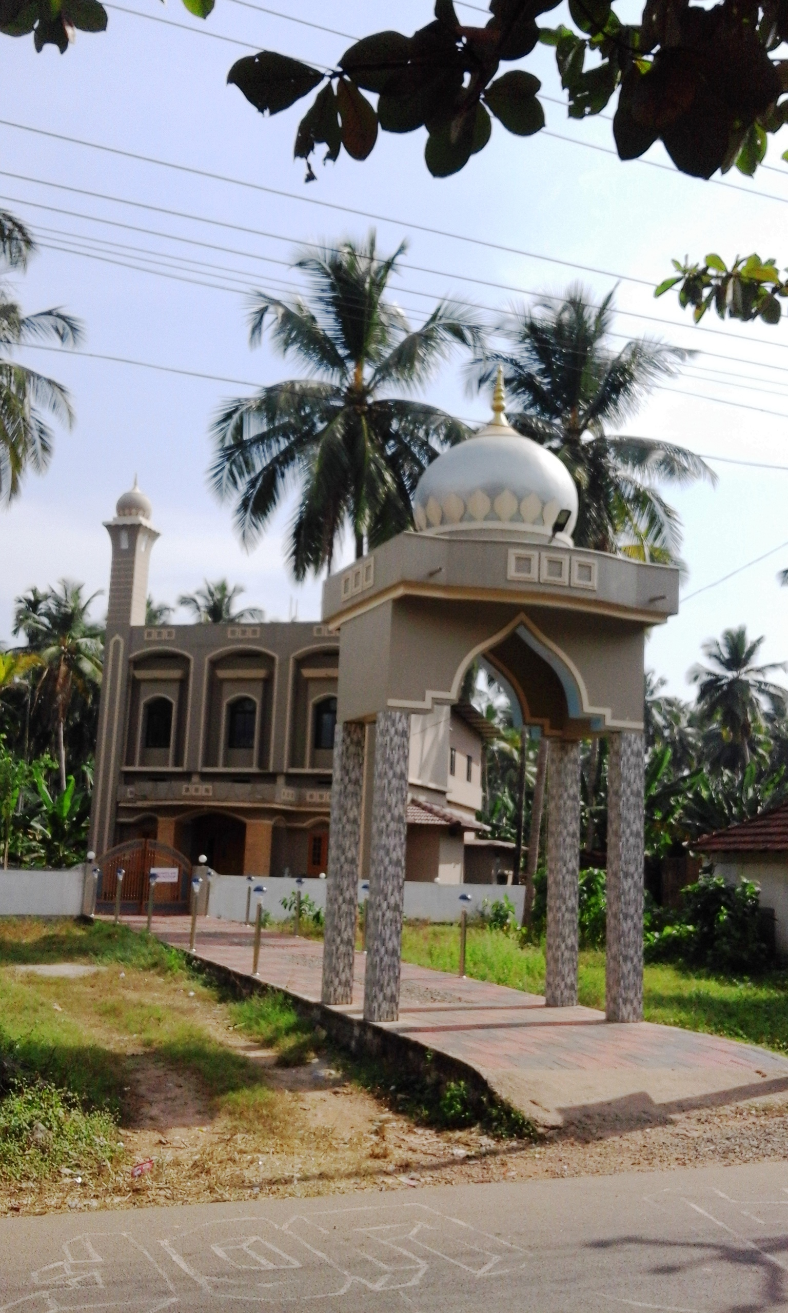 Munderi village, Pothukallu Town, Nilambur city, Malappuram District, Kerala province, India.